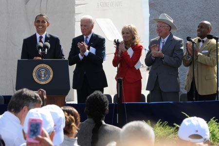 President Obama makes remarks at the dedication of the Dr. Martin Luther King, Jr. Memorial and from left to right, Vice President Joe Biden; Dr. Jill Biden; Interior Secretary Ken Salazar; and Herman "Skip" Mason, President of the Alpha Phi Alpha Fraternity Inc., applaud.